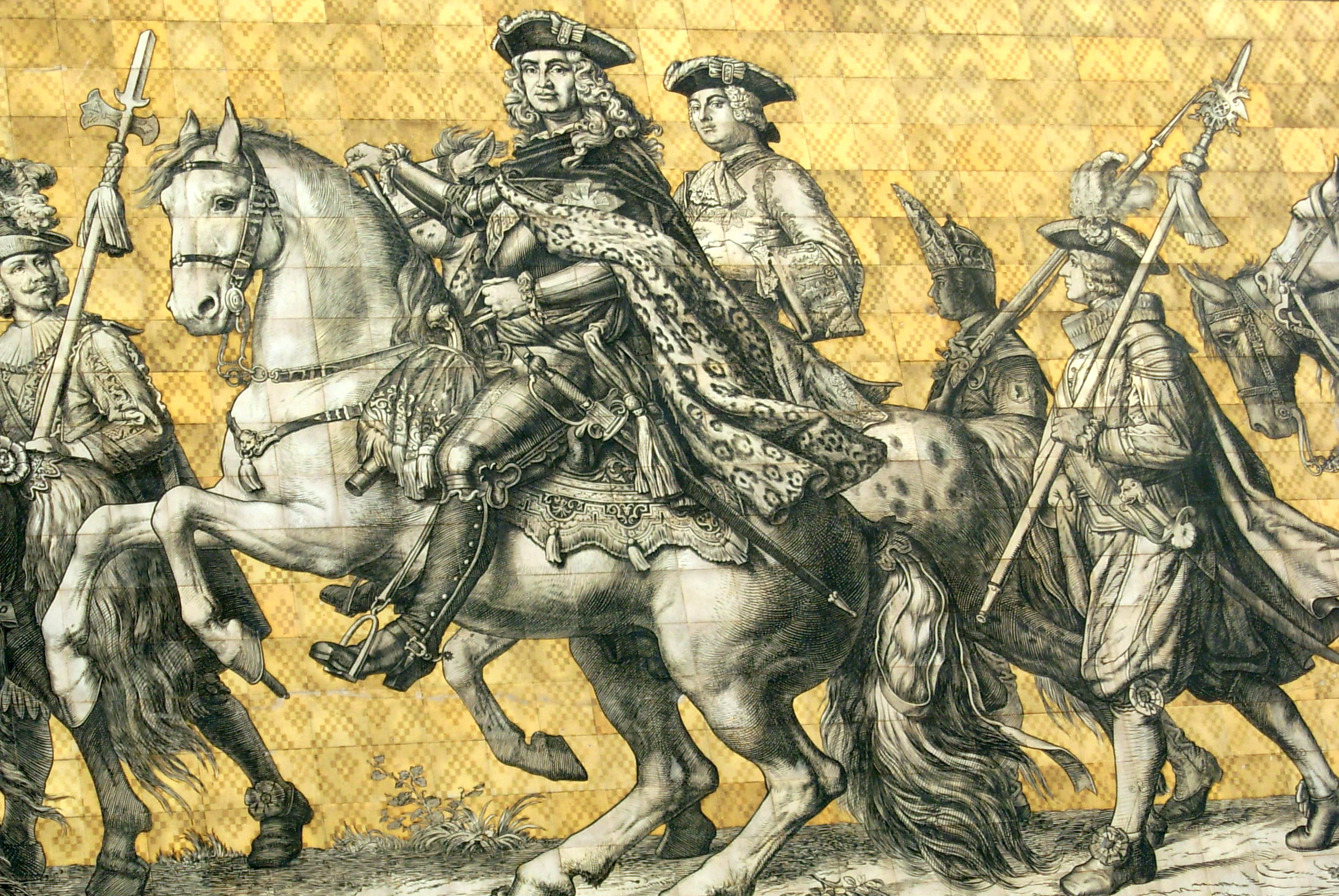 August II and August III (background; mosaik Dresden)/Augustas II ir Augustas III (antrame plane) - mozaikos Drezdene fragmentas